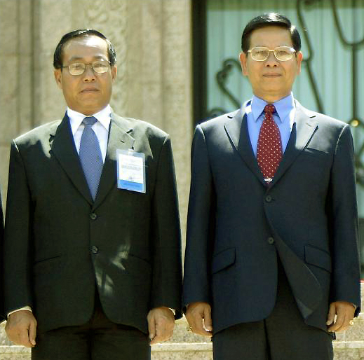 Burma Prime Minister Soe Win (Left) and Former Prime Minister Khin Nyunt (Right), Thursday 21 October 2004. Photo taken by Edward Win.